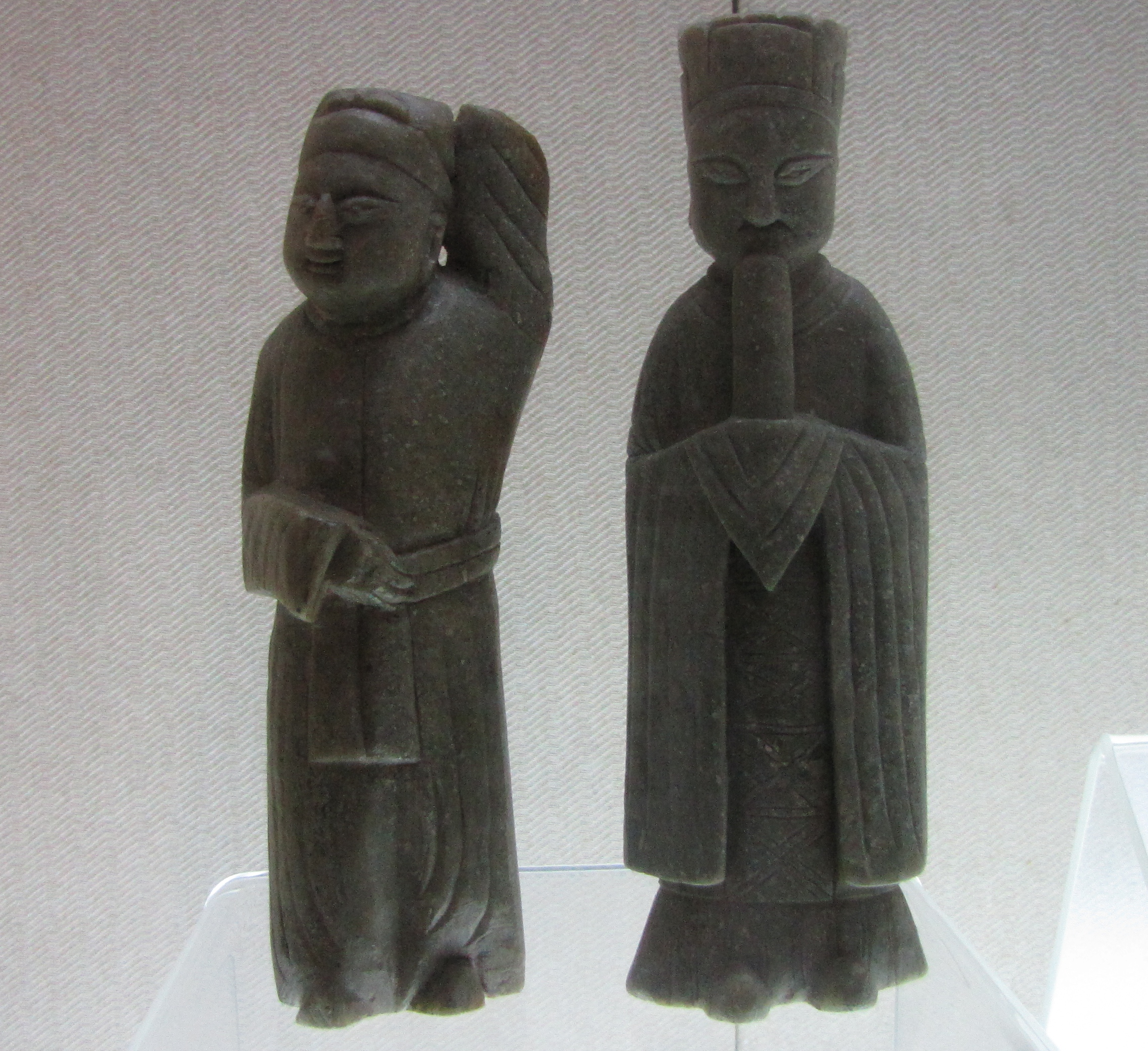 Fuzhou Shoushan Sculpture of Song Dynasty